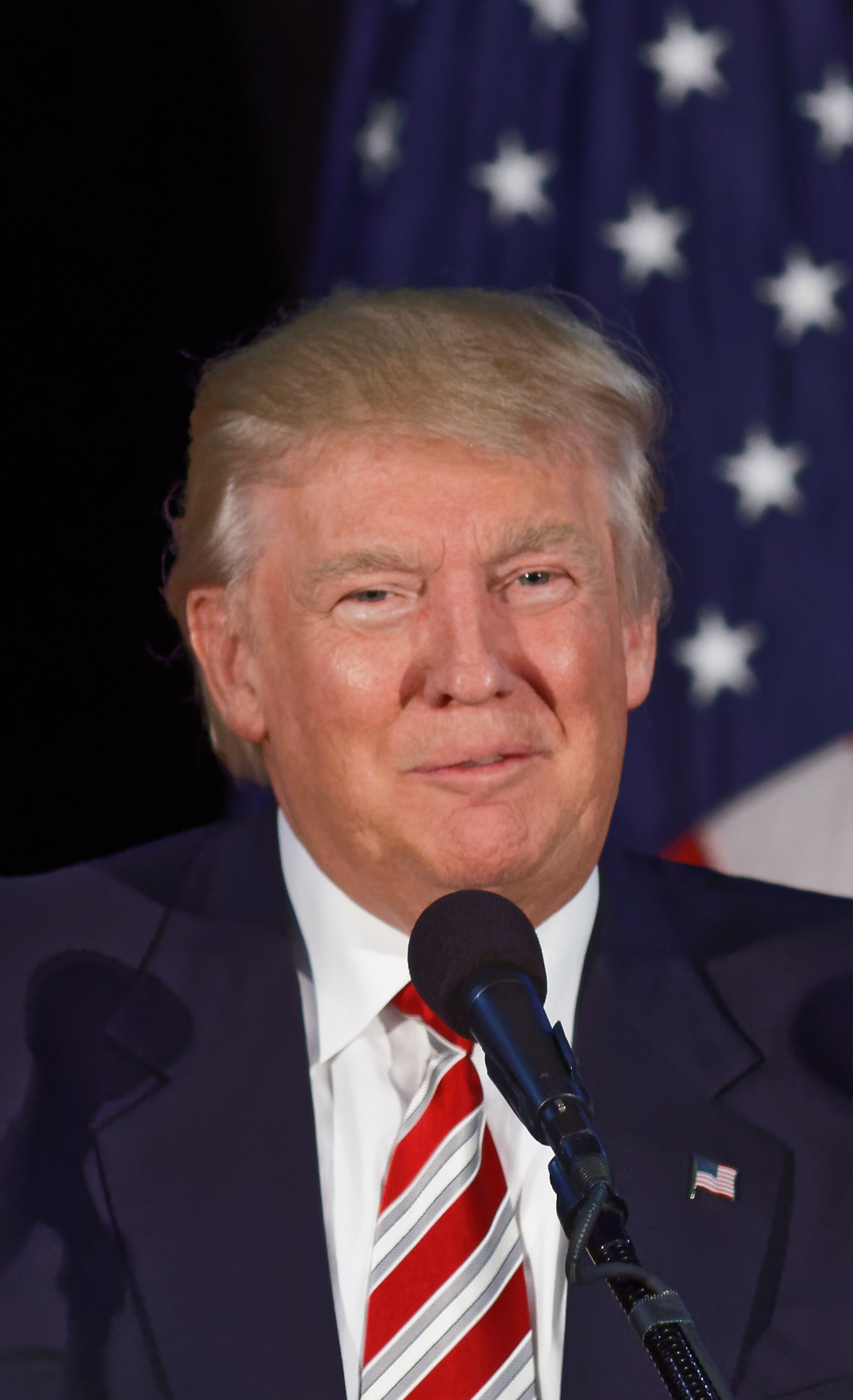 Donald Trump unveils child-care policy influenced by Ivanka Trump